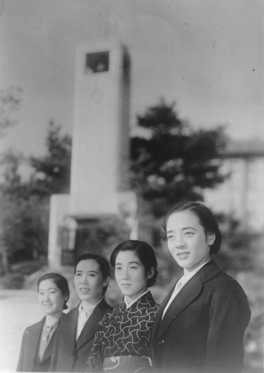 From left to right : Kimiyo Ōtsuka, Yaeko Izumo, Setsuko Shinobu and Kuniko Miyake in Mikaeri no tō (みかへりの搭) directed by Hiroshi Shimizu - 1941